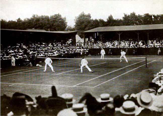 Wimbledon men's challenge round, the Dohertys vs. Frank Lorymer Riseley and Sydney Howard Smith.